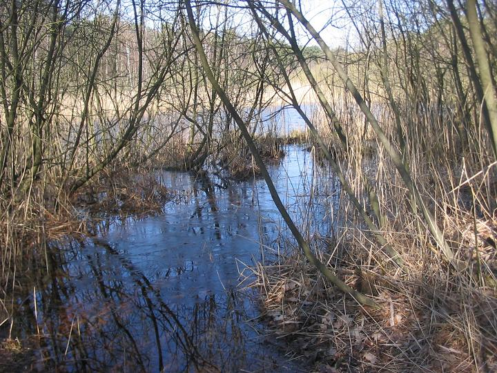 Protected area Pechpfuhl (german for: pitchmurkypool (?)) in Ludwigsfelde. Ludwigsfelde is a town in the district Teltow-Fläming, state Brandenburg, Germany.